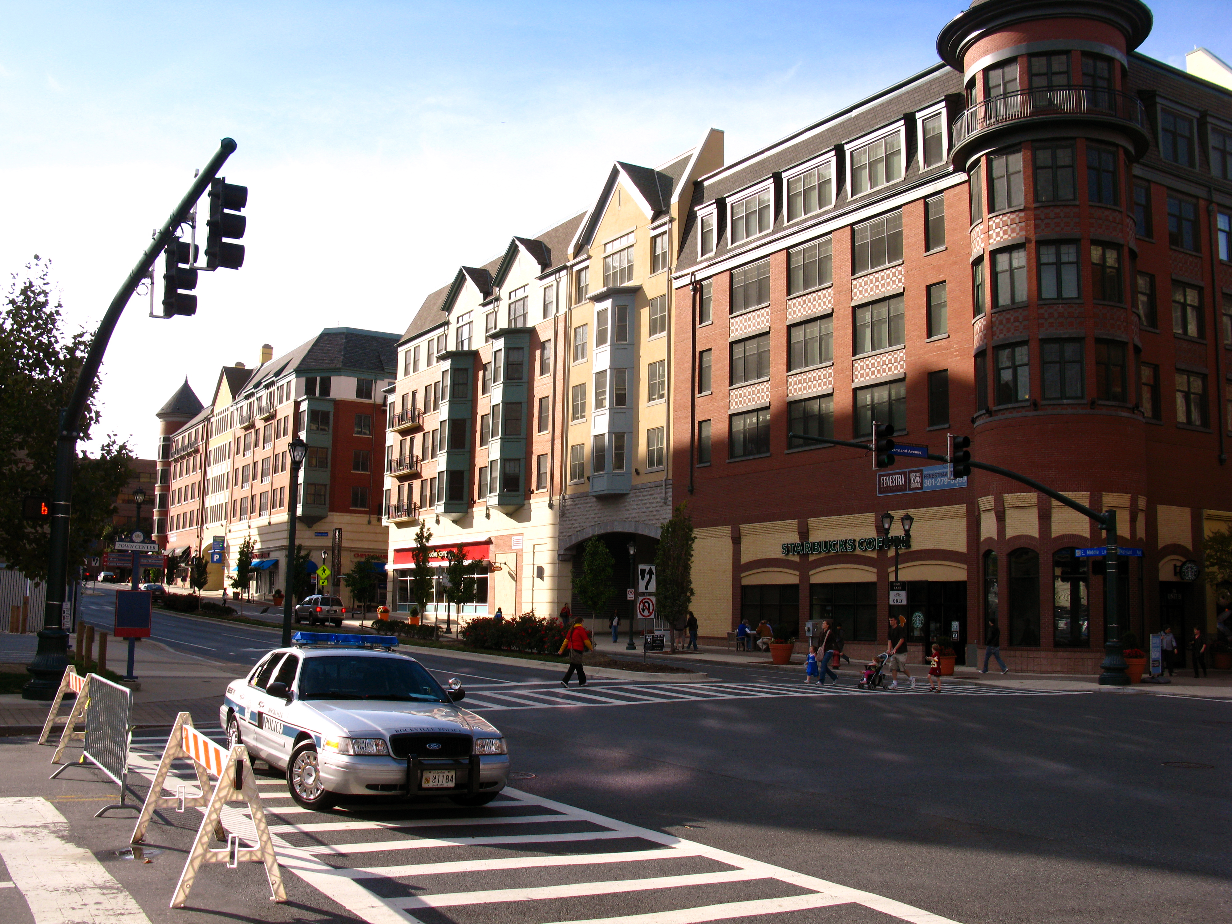 2009 10 10 - 0085 - Rockville - Maryland Ave at Middle La, Location: Rockville